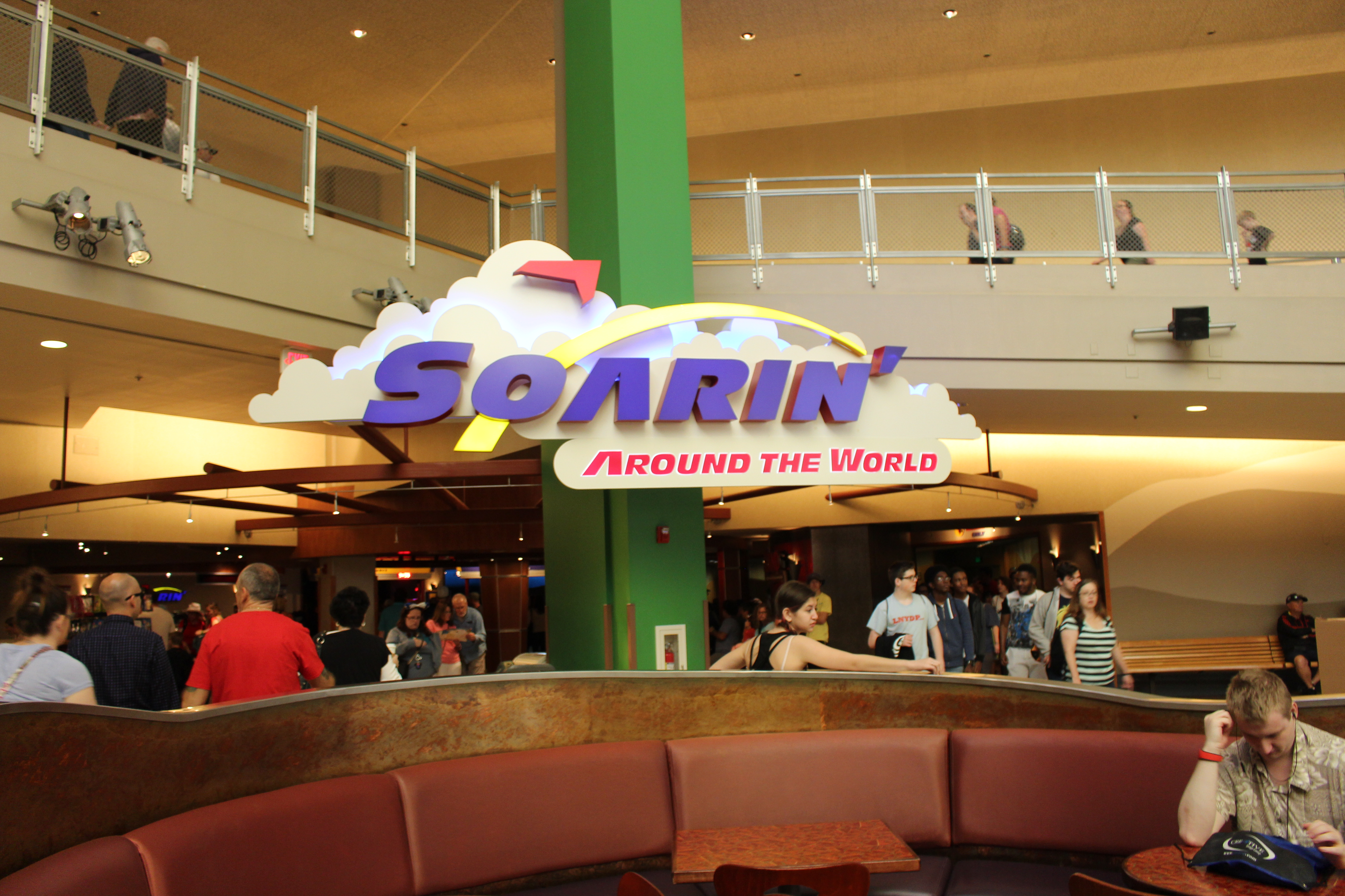 Future World, Epcot, Bay Lake, Orange County, Florida